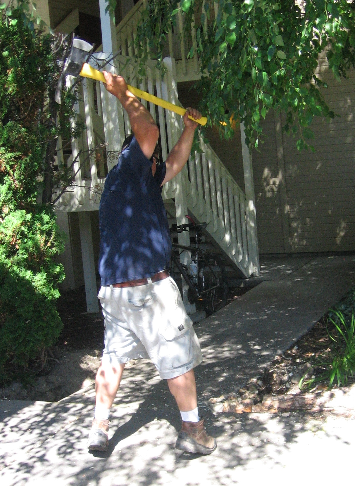 A Pulaski is used against a stubborn birch root.